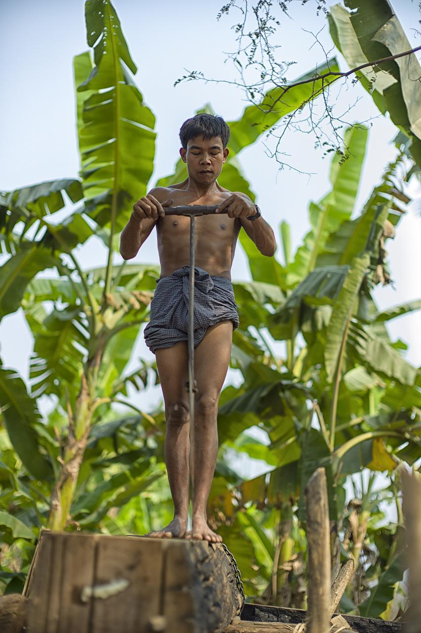 A Myanmar man wearing paso hkadaung kyaik.